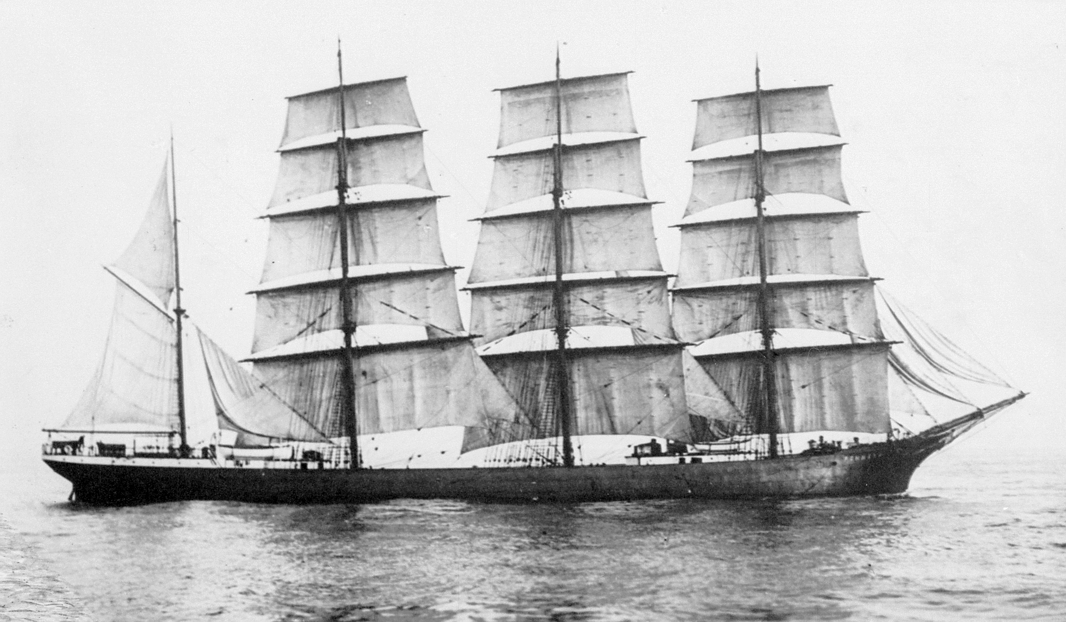 POMMERN., Mariehamn. 2113 tons. Built at Glasgow. 1903. Iron. Ex Mneme.. Shows two men at the wheel with the captain standing on the deck wearing raincoat and hat.